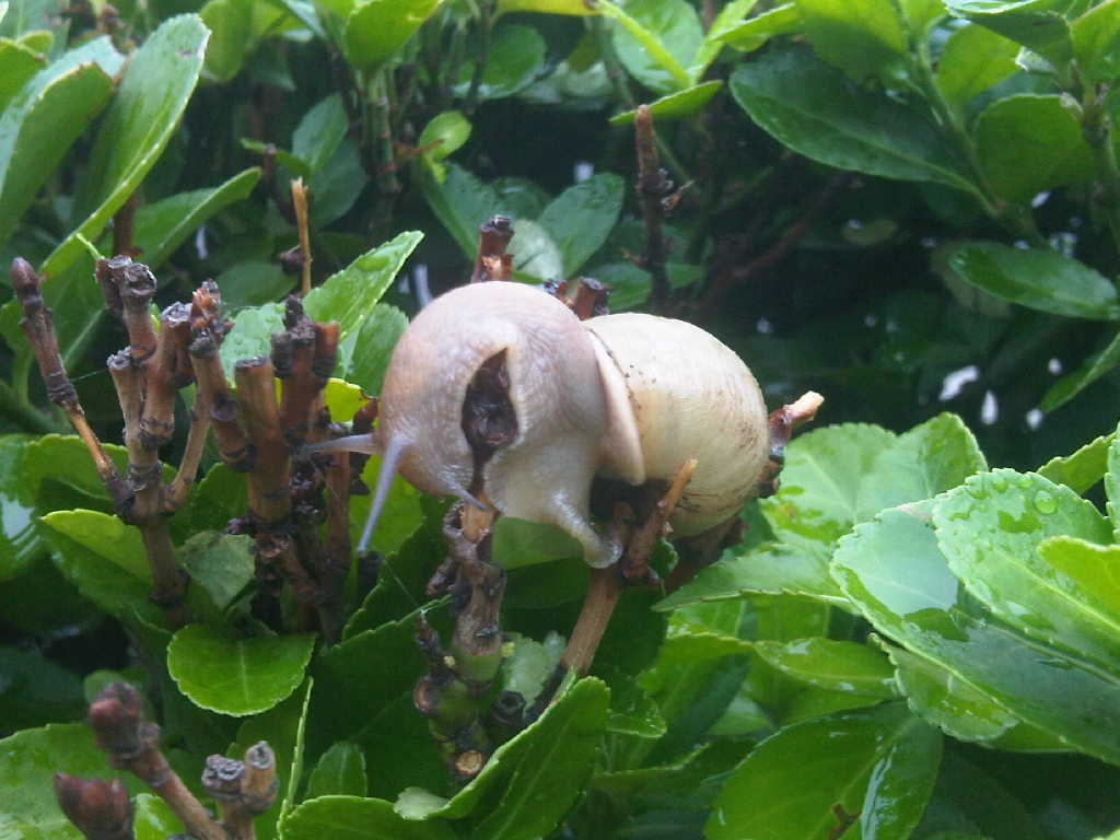 An unidentified gastropod, land snail from Xicheng, Beijing, China